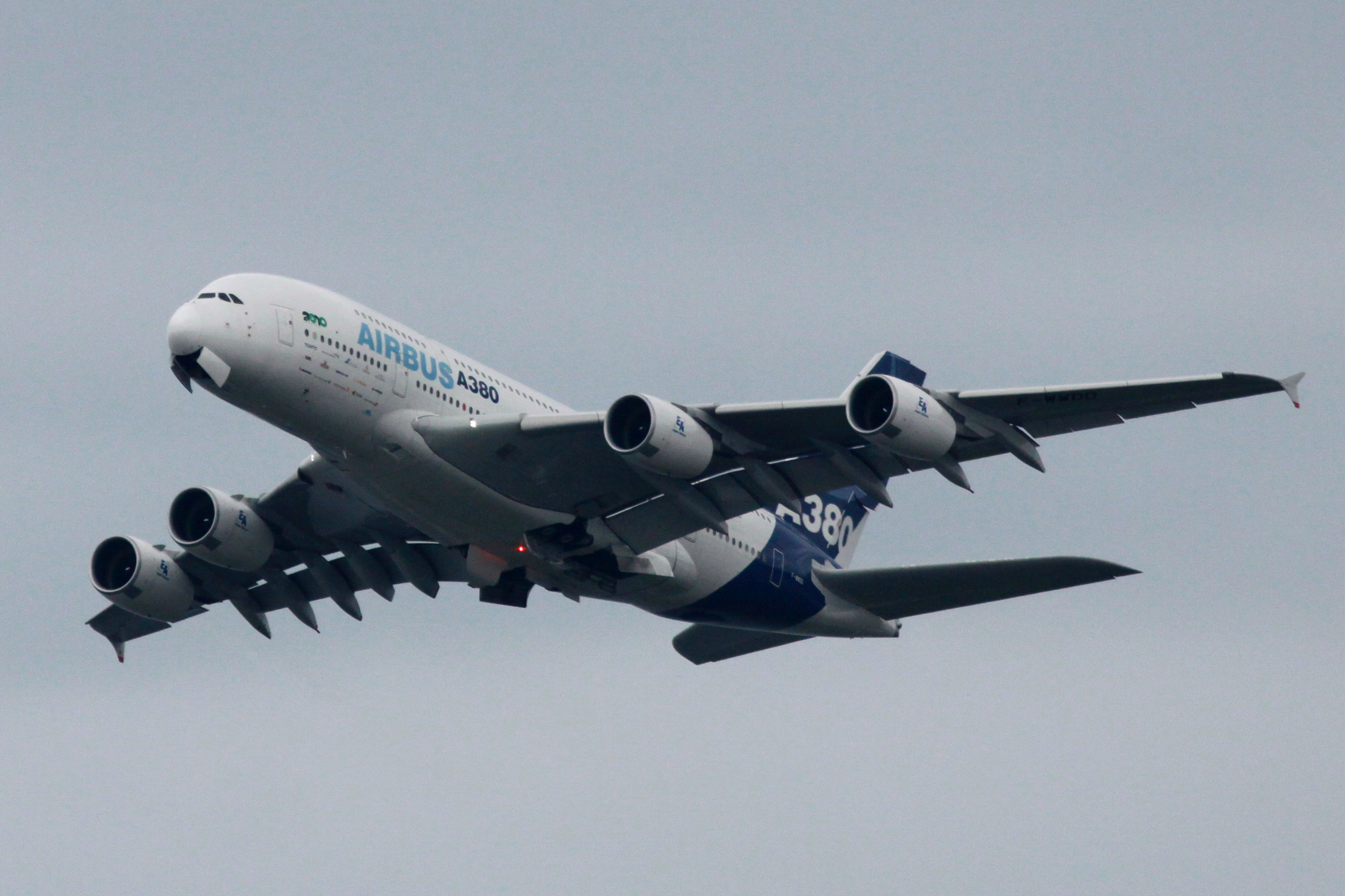 Tokyo International Airport, Airbus A380-861, c/n:004, Call sign "Airbus 102", Flight to New Chitose Airport(CTS) Airbus Industrie